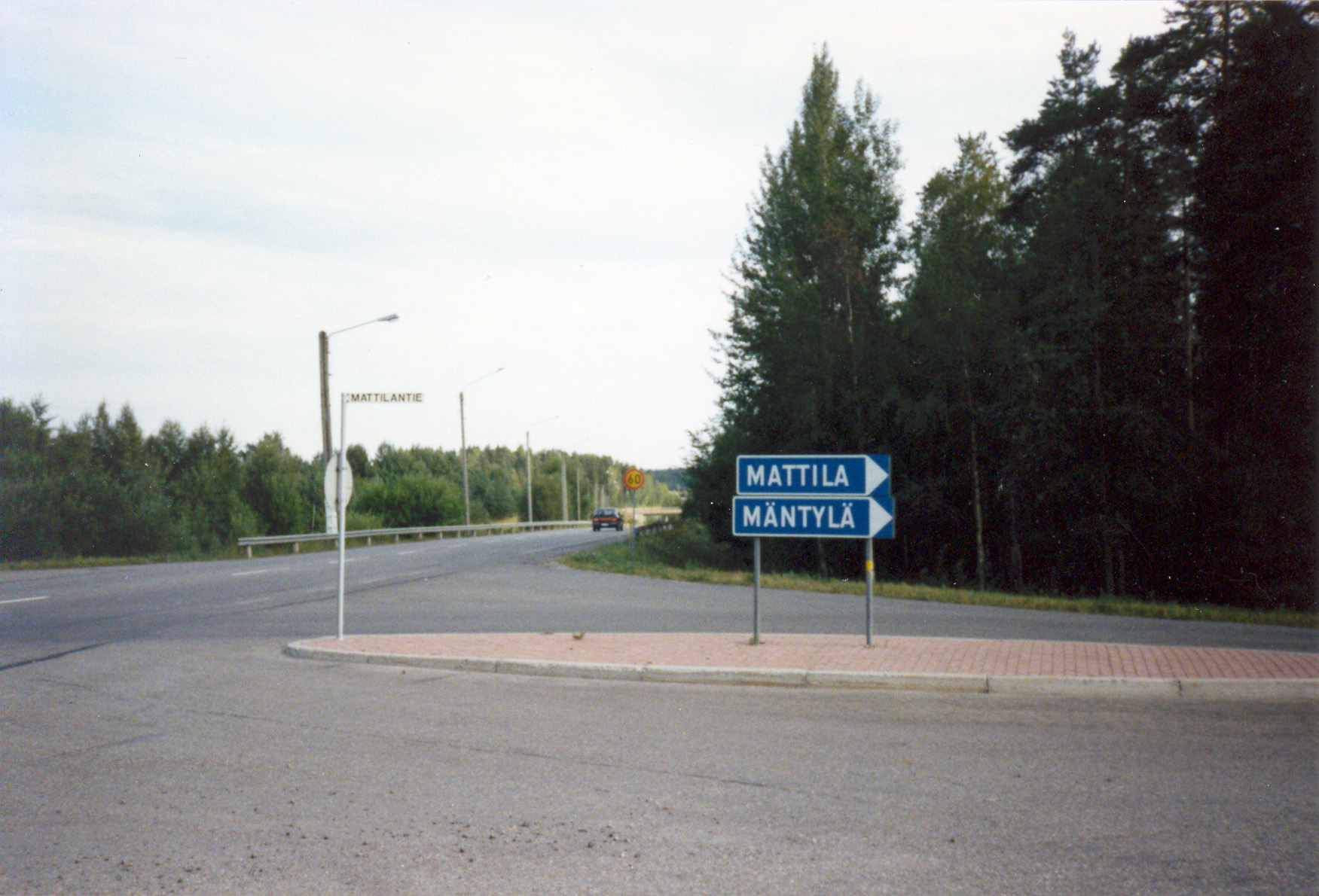 Junction of regional road 387 and a local road in Lappeenranta, Finland in 1989